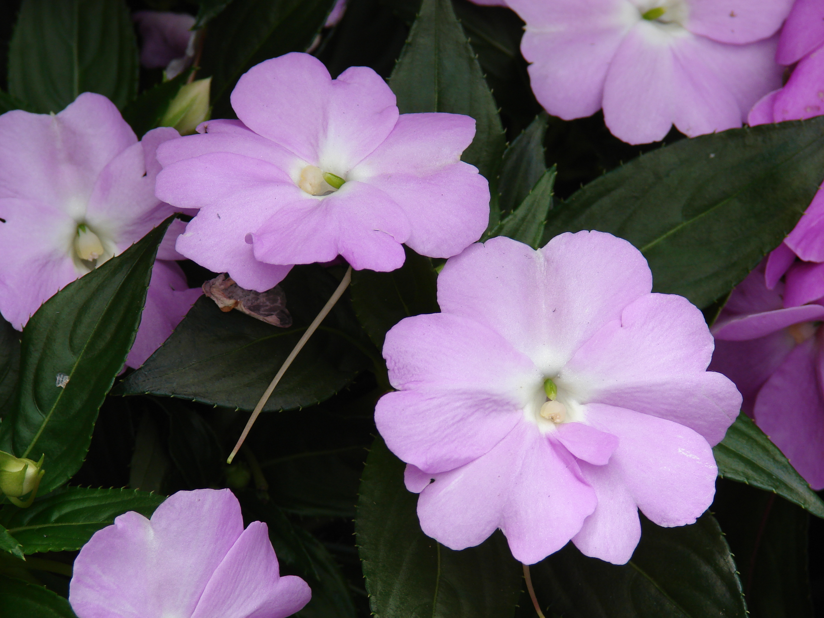 Impatiens hawkeri (purple flowers). Location: Maui, Kula Ace Hardware and Nursery